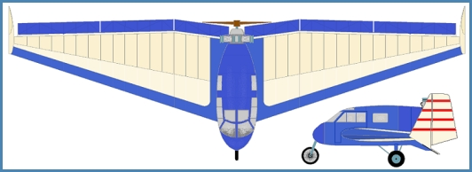 Nieuport SGA-914T 1932